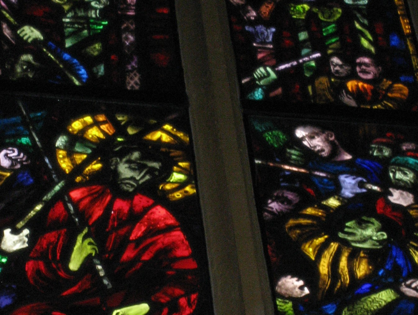 Window with Hitler and Mussolini among the defiers of Jesus Christ